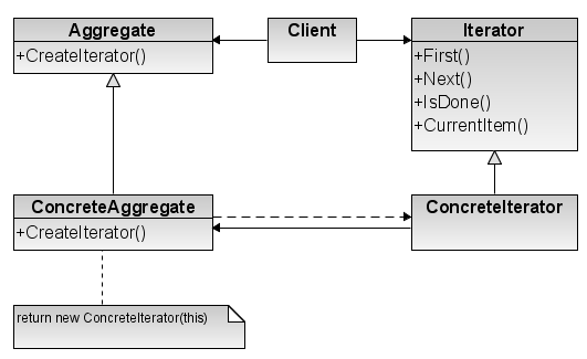 The Iterator design pattern illustration, UML diagram.